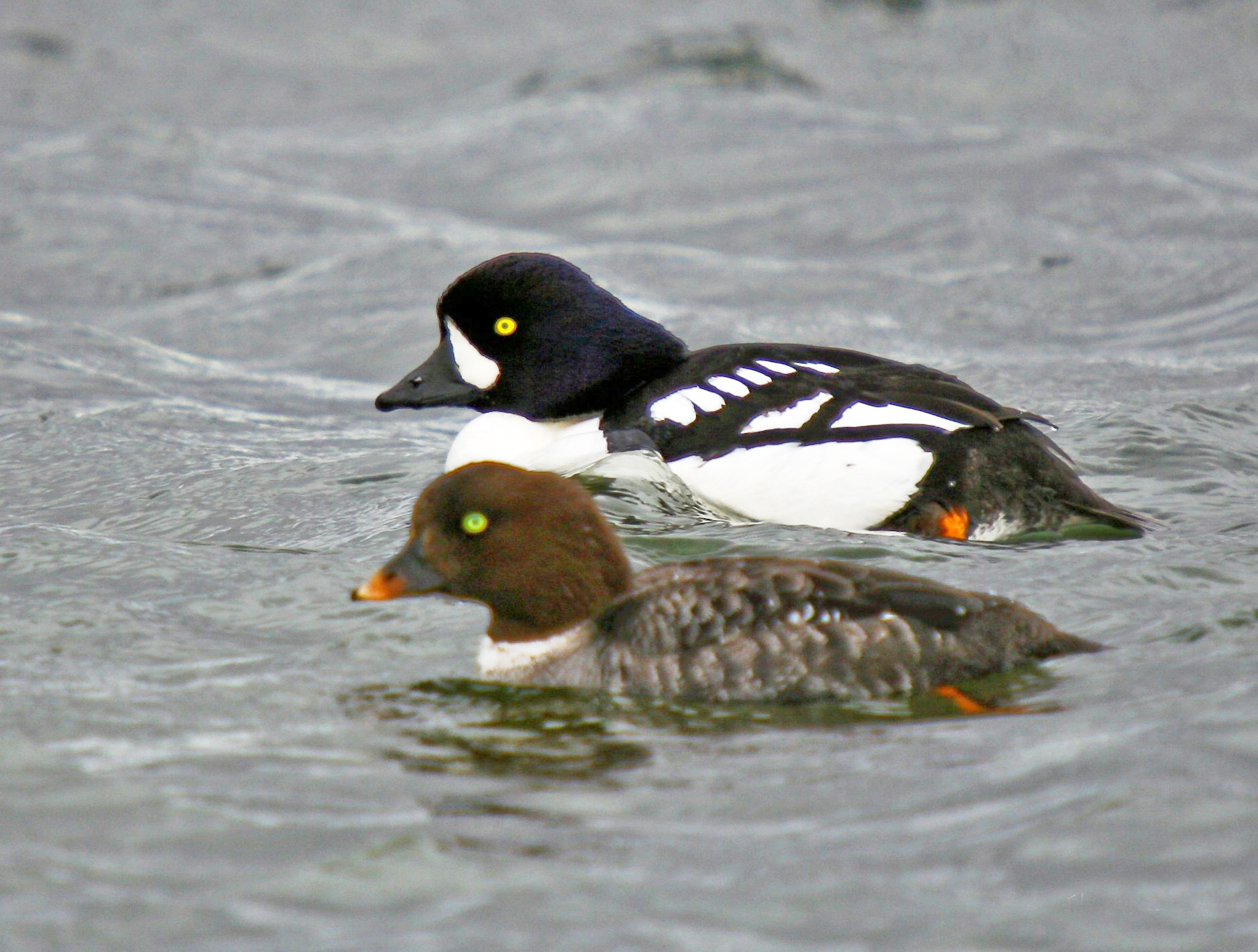 Barrow's Goldeneye Bucephala islandica, male and female, Mývatn, Iceland